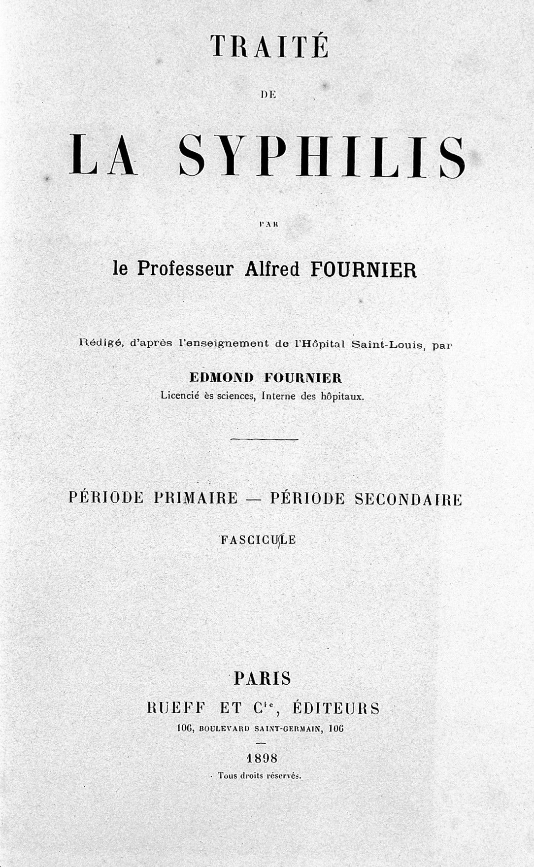 Title page General Collections Keywords: Jean Alfred Fournier